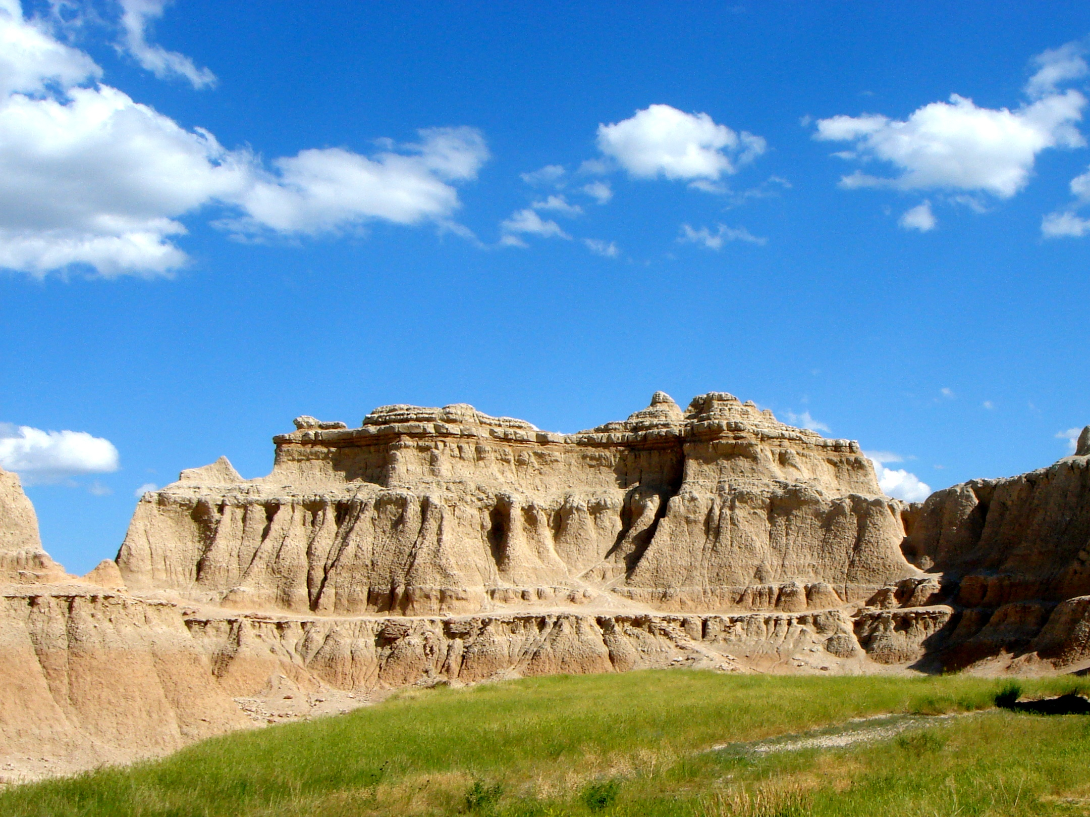 South Dakota Badlands National Park 06.2006